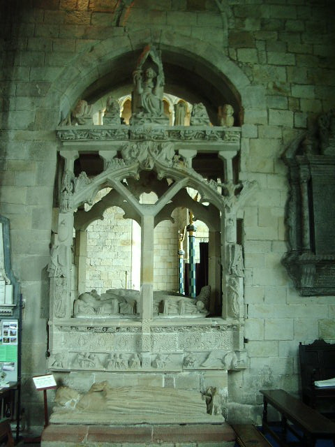 Tomb,The Priory Church of St Mary and St Michael, Cartmel The Harington Tomb. This tomb commemorates John, the first Lord Harington who died in 1347, and his wife Joan